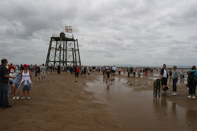 Wyre Light - Lifeboat day at Fleetwood